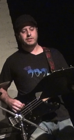 Jesse Krakow performing with Haschliche Luftmasken at the Stone in 2012